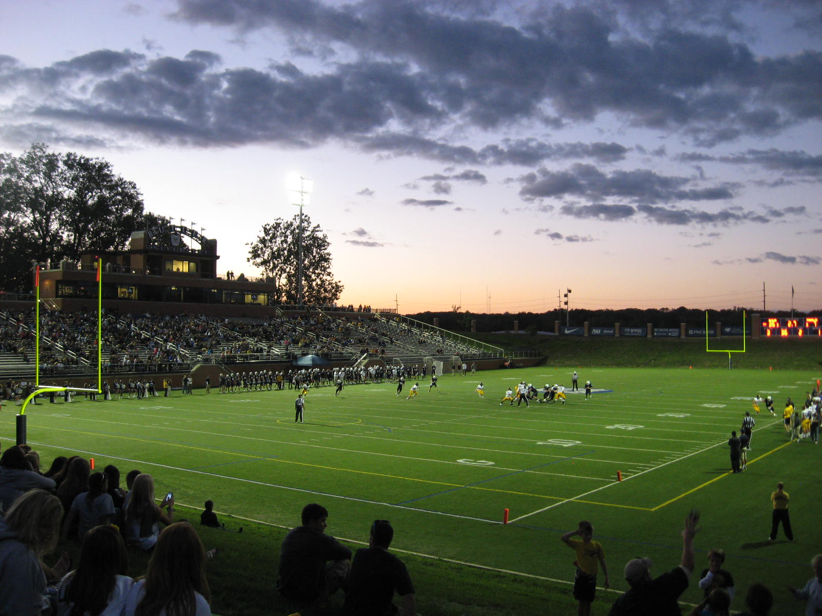 The Butler Bowl on its firs night game in over 70 years